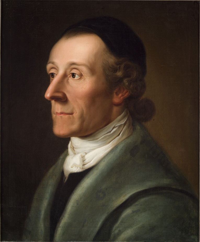 Depicted person: Johann Kaspar Lavater